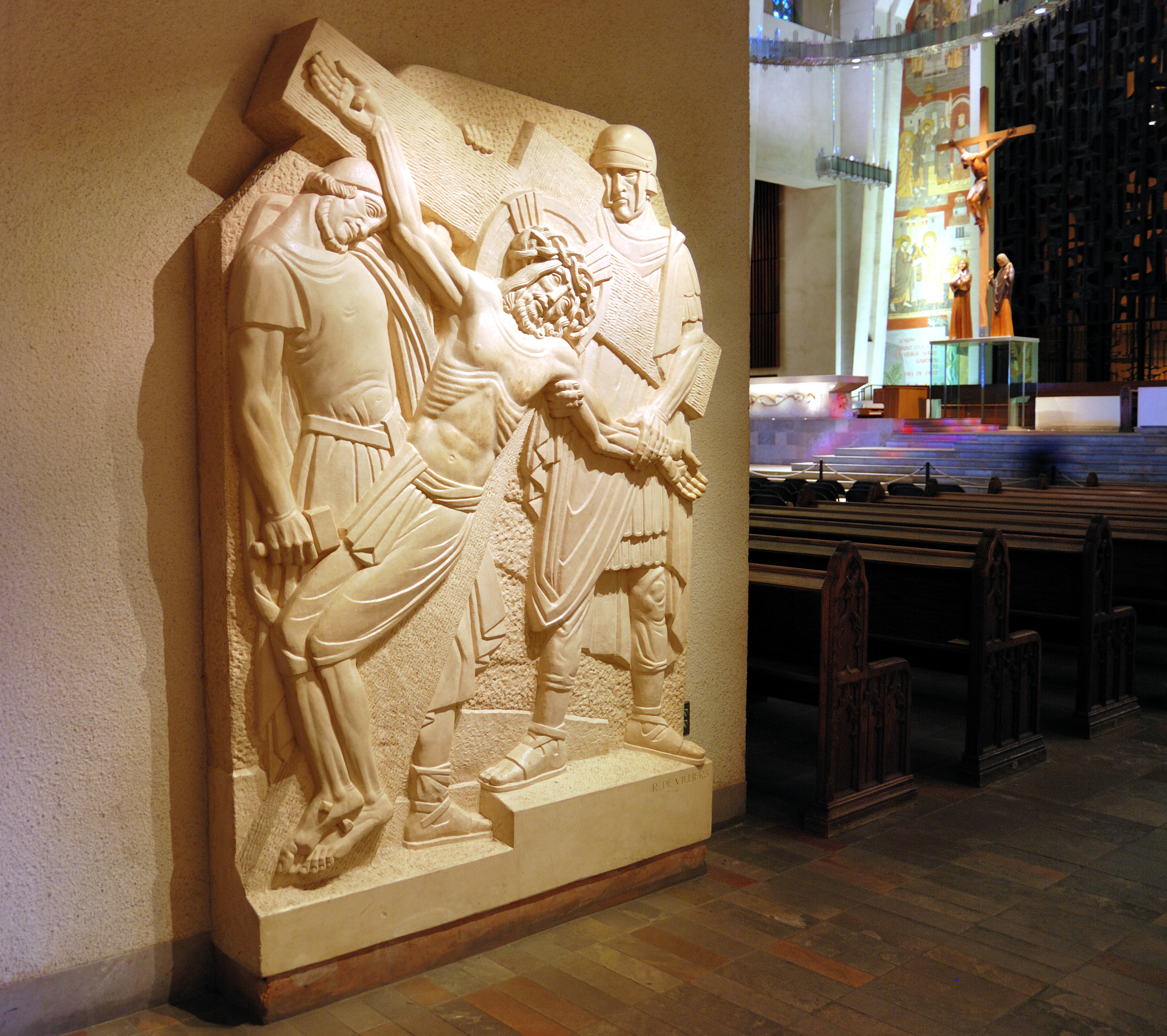 Montréal: Saint Joseph's Oratory of Mount-Royal